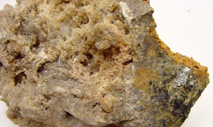 Hopeite. Mineral collection of Bringham Young University Department of Geology, Provo, Utah. Photograph by Andrew Silver. BYU index 9-3077b.